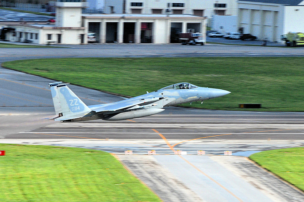 A 44th Fighter Squadron F-15C Eagle takes off at Kadena Air Base, Japan, Aug. 5, 2007, en route to Guam in support of Exercise Valiant Shield. More than 400 Airmen and F-15Cs, KC-135R Stratotankers and E-3 Airborne Warning and Control System aircraft are participating in the weeklong Pacific Command joint exercise which focuses on integrated joint training to enable real-world proficiency in sustaining forces and detecting, locating, tracking and engaging units at sea, in the air, on land, and cyberspace in response to a range of mission areas. U.S. Air Force photo/Senior Airman Darnell T. Cannady